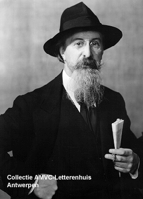 Jef van Hoof (8 May 1886 - 24 April 1959) was a Belgian composer and conductor.